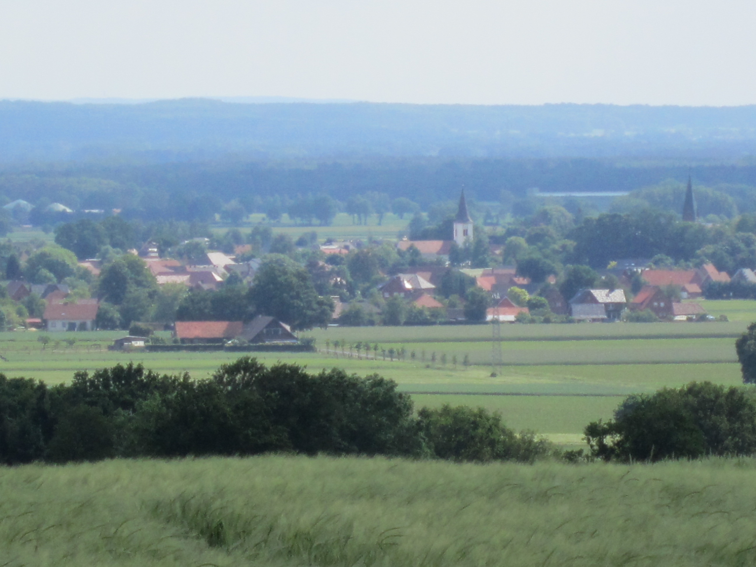 View to Vörden from Dreesberg (Damme Mountains)